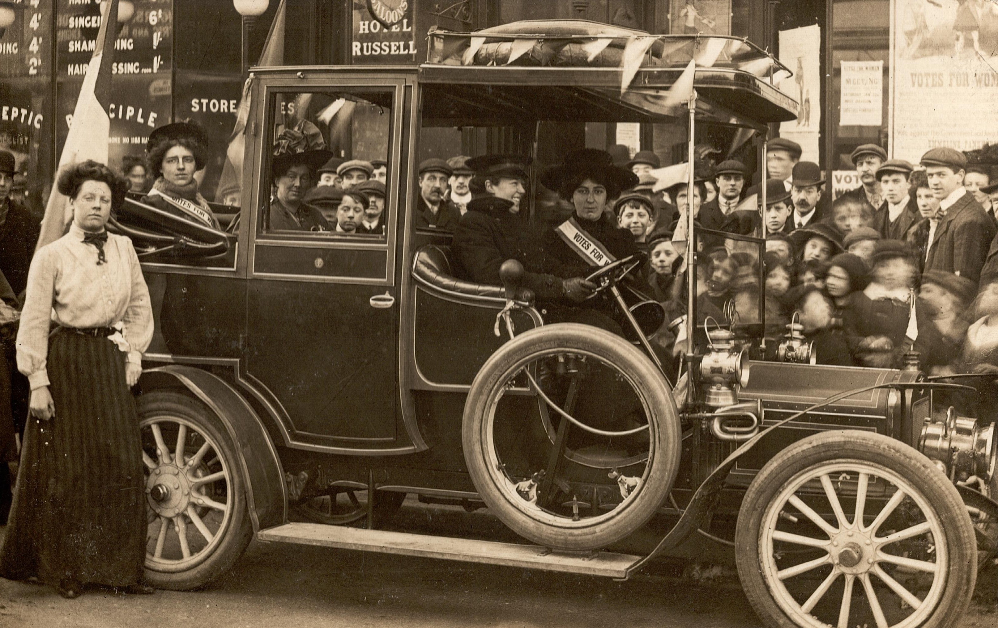 Suffragette group with Vera 'Jack' Holme as chauffeur twl 2000 32